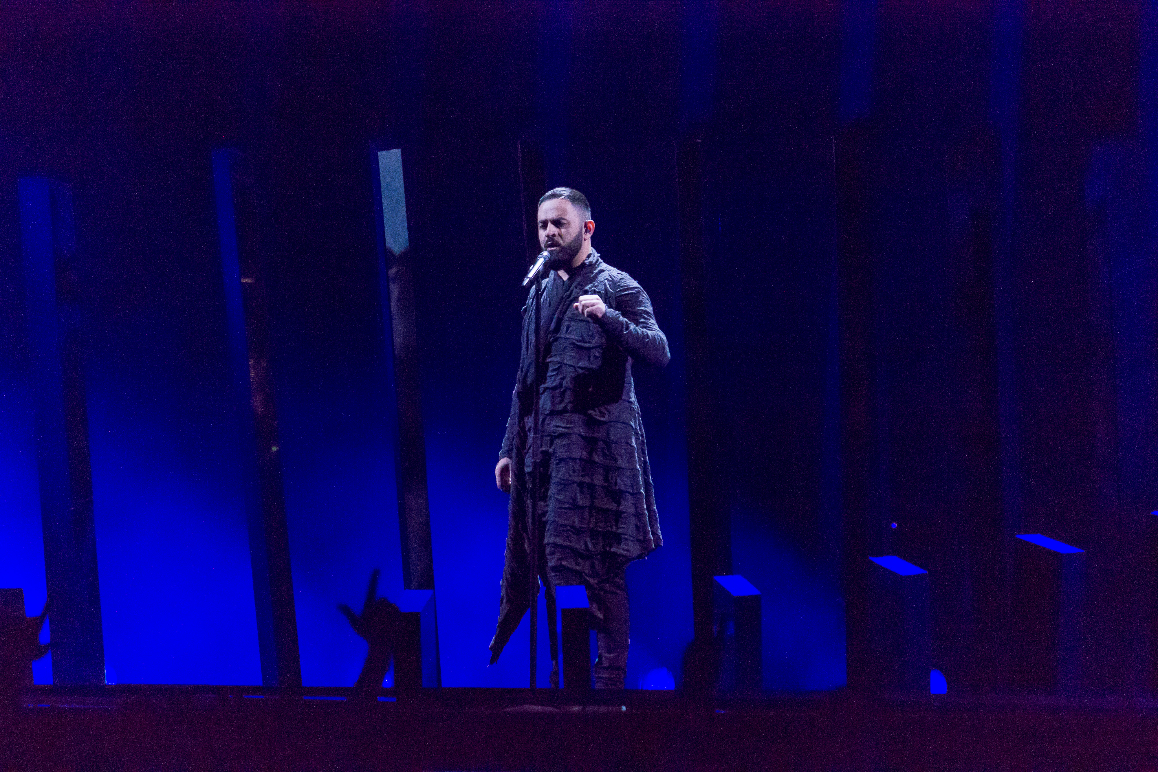 Sevak Khanagyan representing Armenia with the song "Qami" during a rehearsal before the first semi final of the Eurovision Song Contest 2018 in Lisbon.